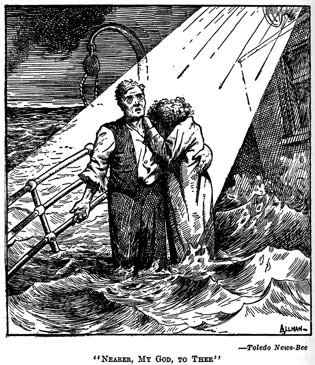 "Nearer, My God, To Thee"